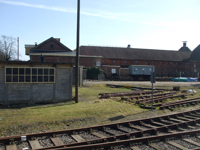 The Mid Norfolk railway, Dereham yard